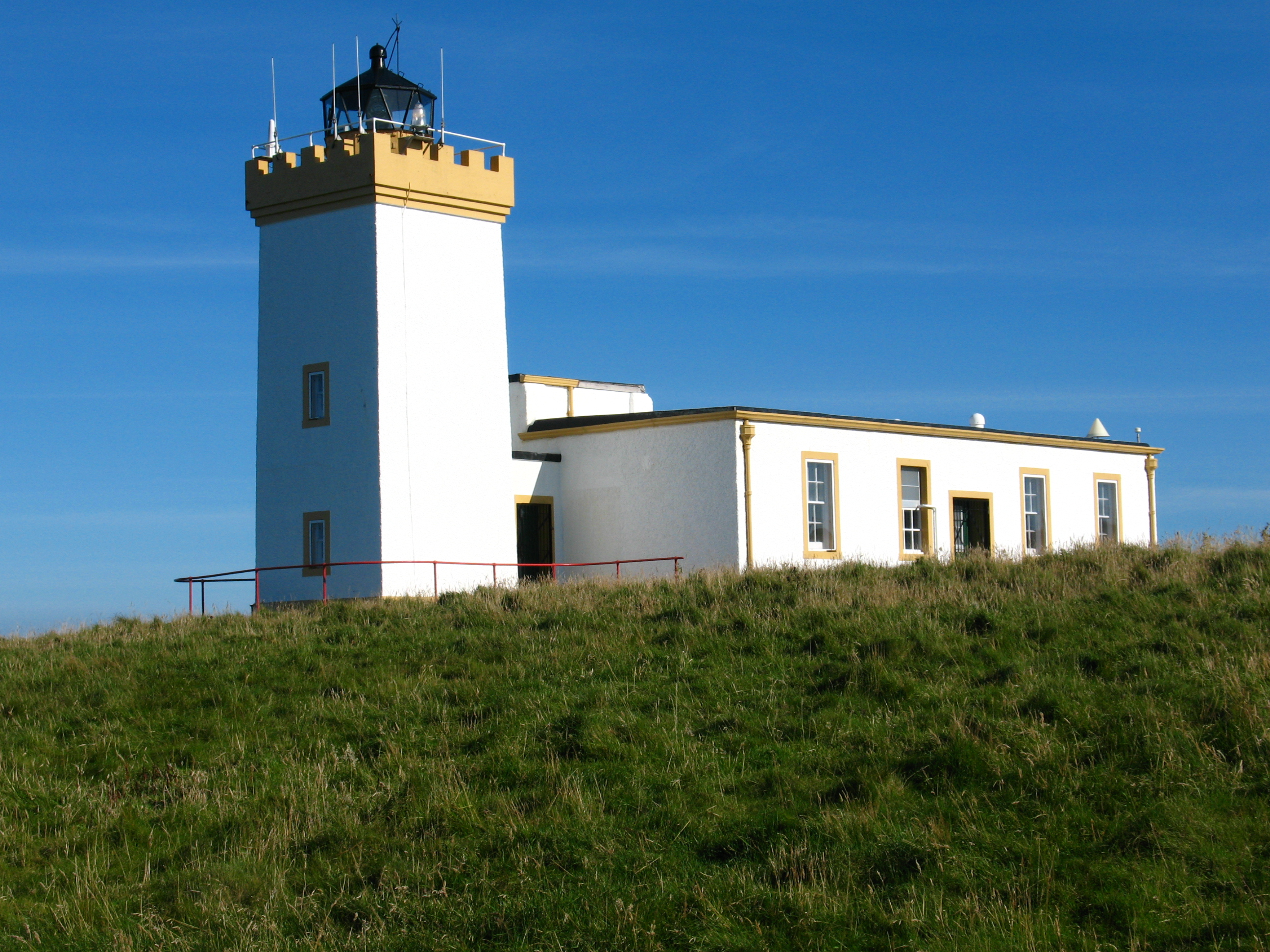 The picture shows the lighthouse from John o' Groats in daylight in August 2007.